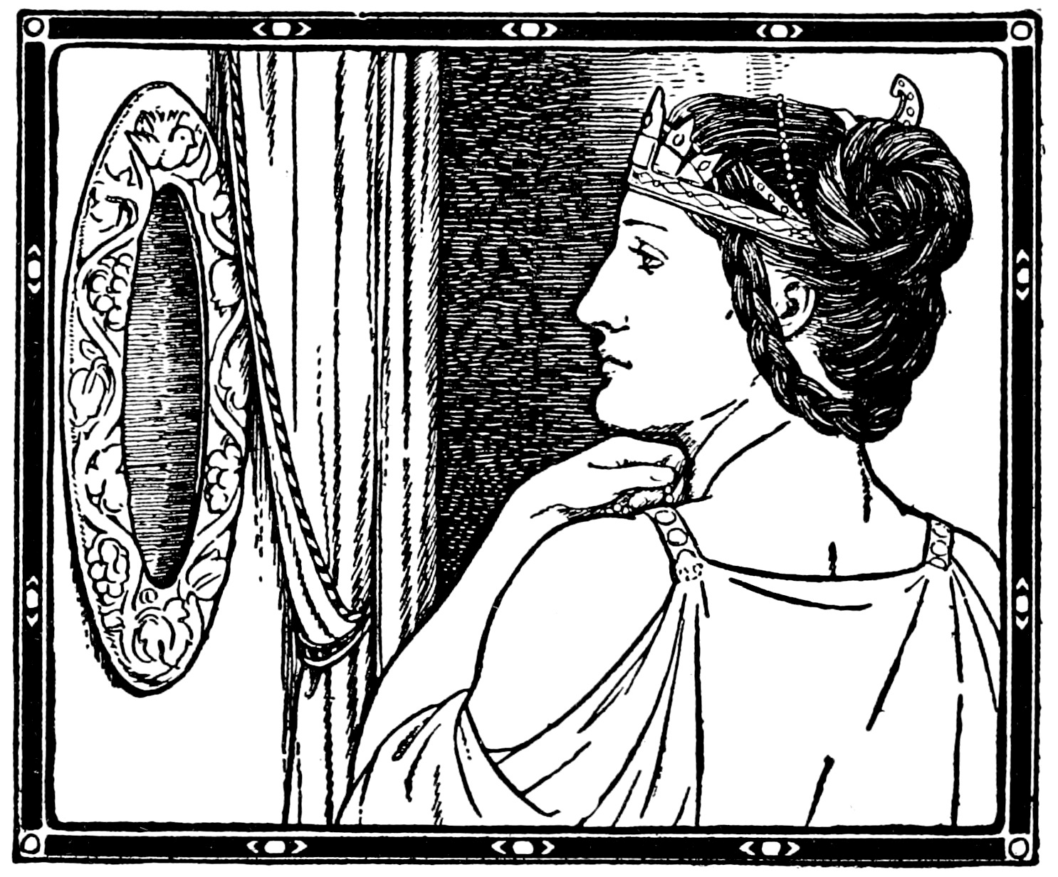 Illustration from a book of fairy tales from Europe, translated into english